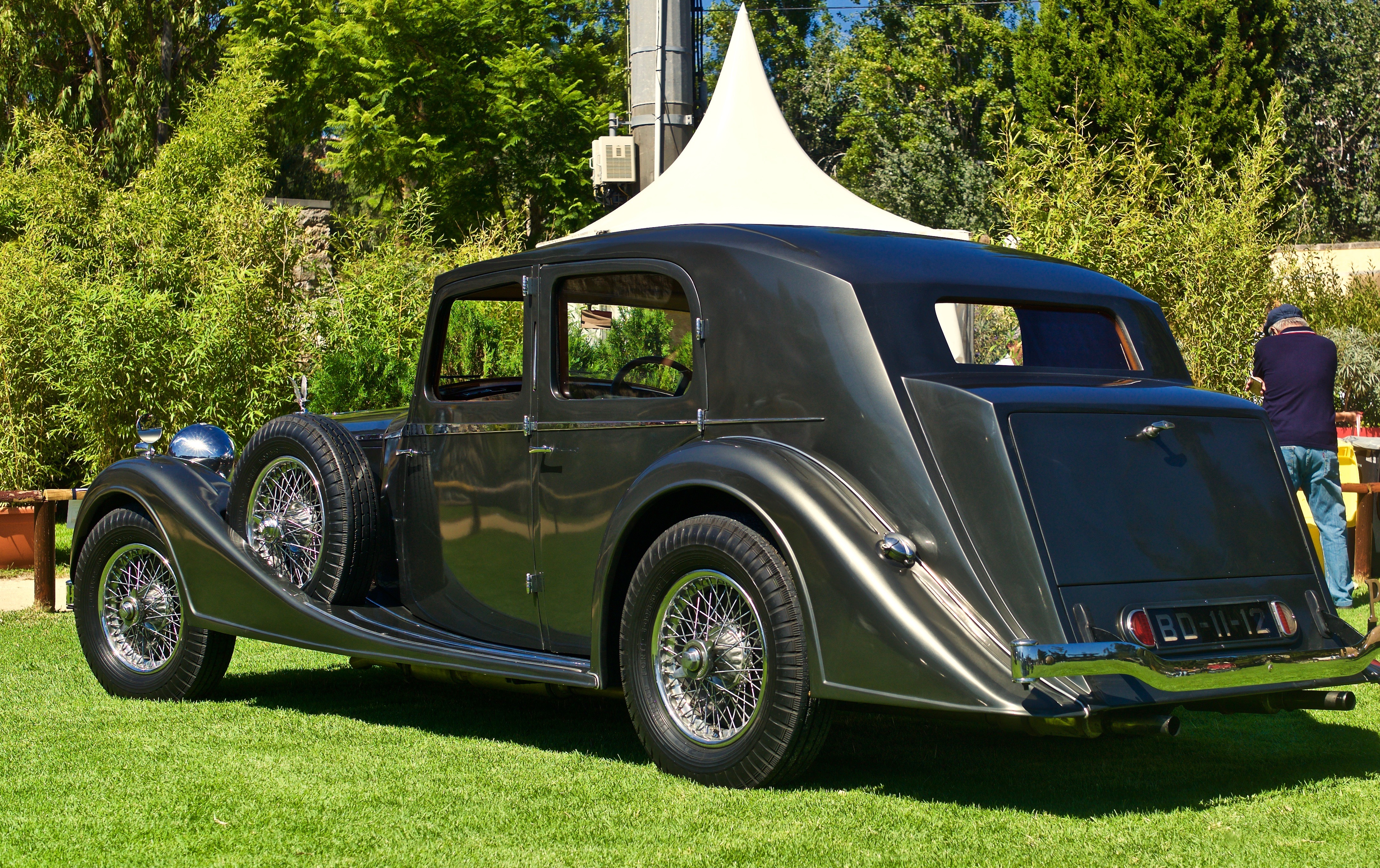 Alvis Speed 20 saloon by Mayfair Cascais Classic Motorshow, Cascais, Portugal